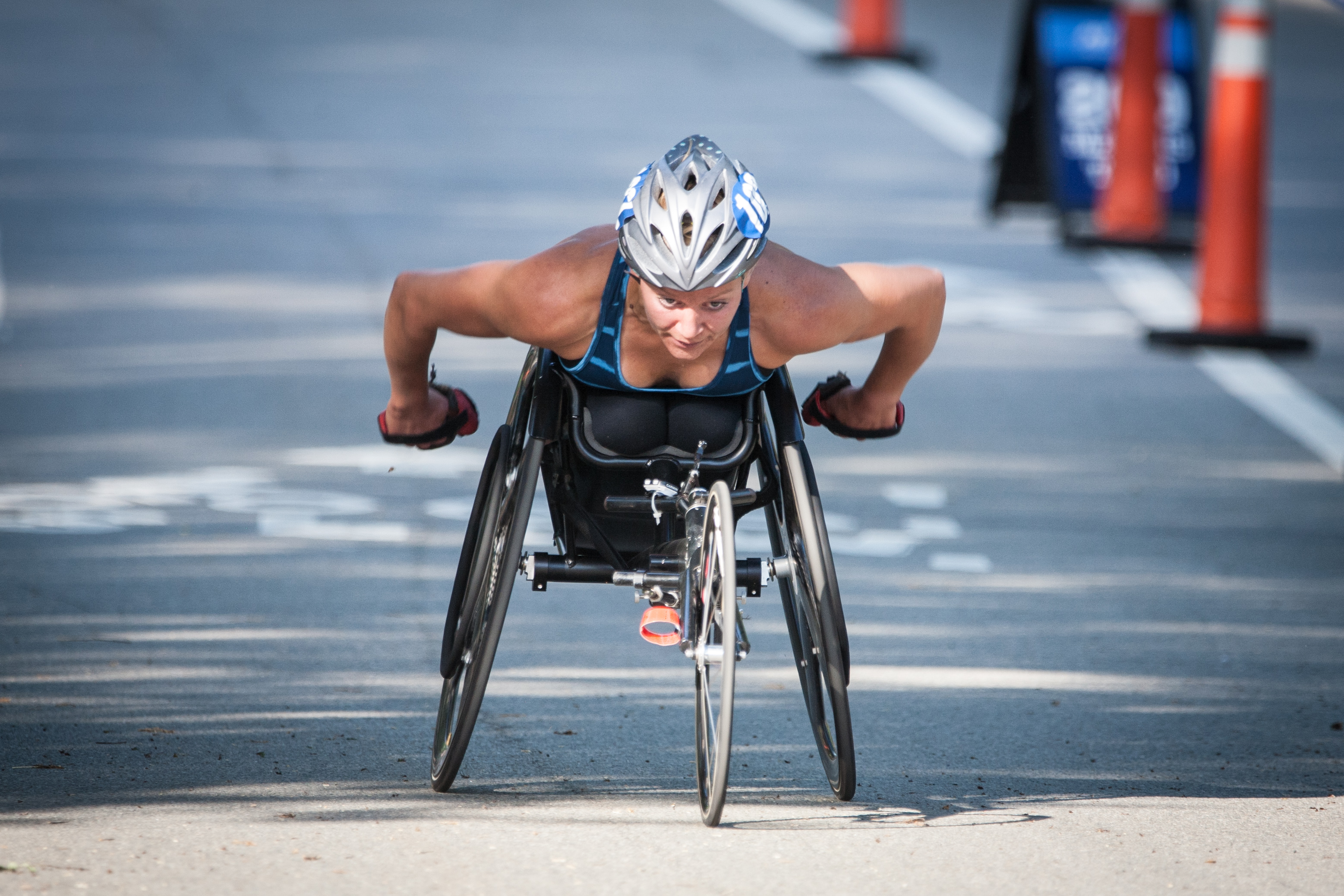 Elite women – NYRR Mini 10K 2018